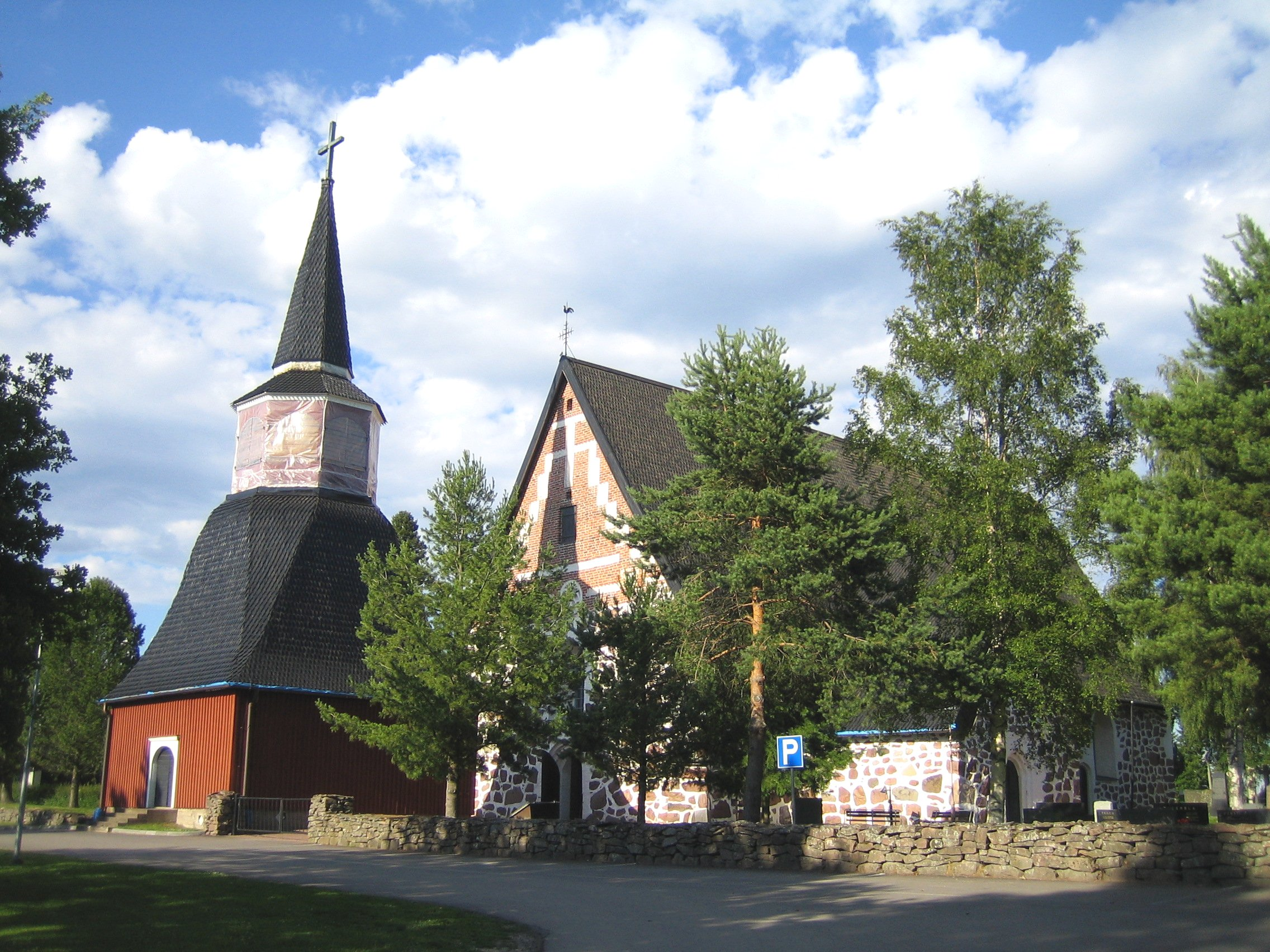 Ulvila Church and Belfry (on the left) in Ulvila, Finland